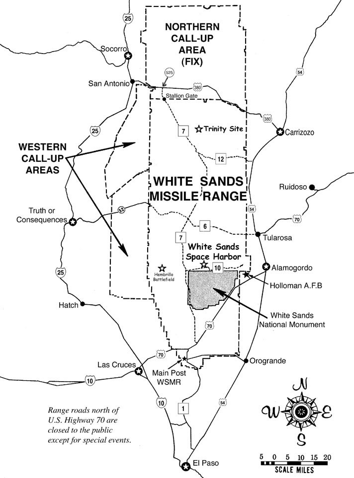 Map of the White Sands Missile Range.